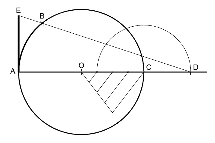 Rectification of an arc of less than 90º circumference